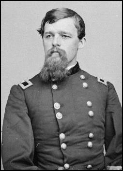 Photo of